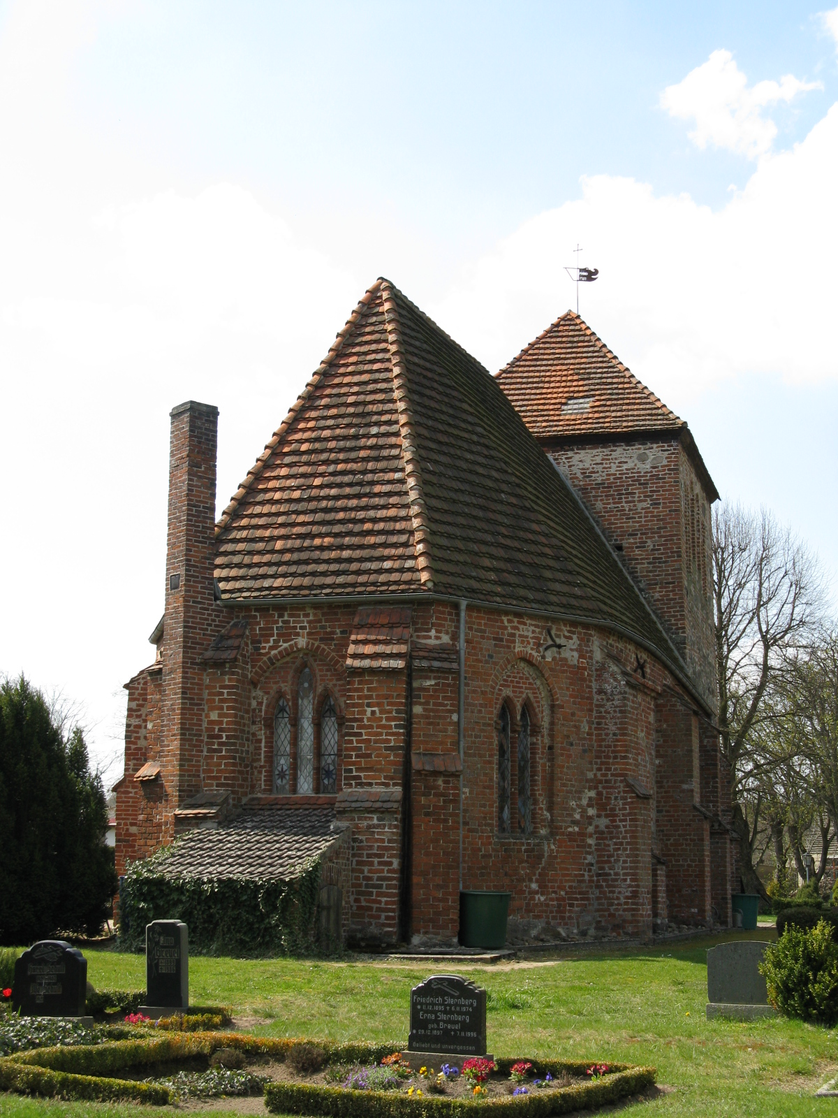 Church in Slate, Mecklenburg-Vorpommern, Germany